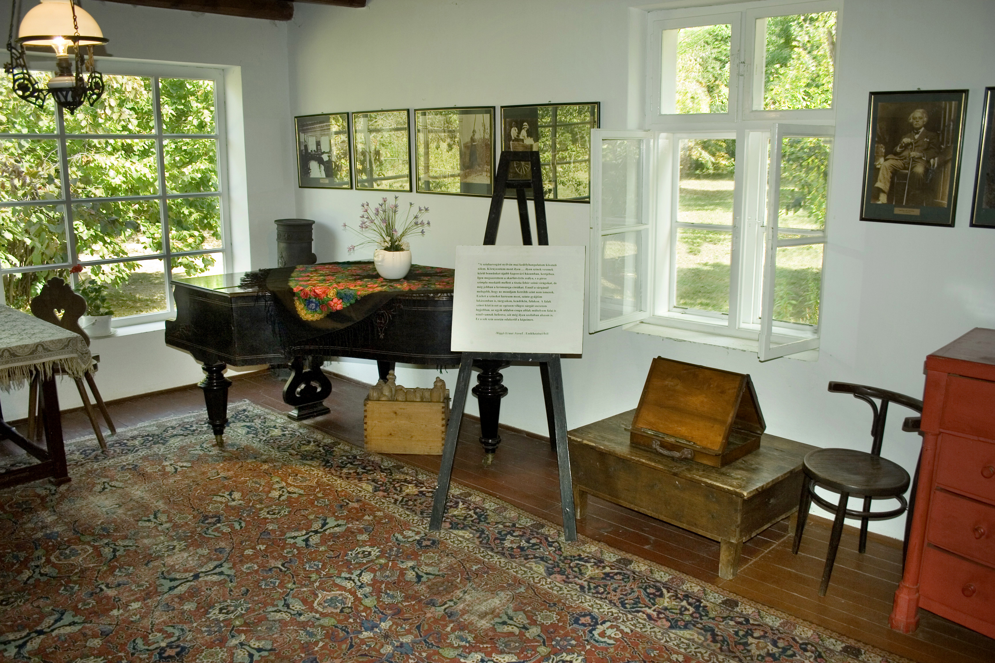 Studio inside in the garden pavilion, Ripll-Rónai's kind objects, his piano, on the wall his photographs - Interior of Museum House Rippl Ronai, Kaposvar, Hungary